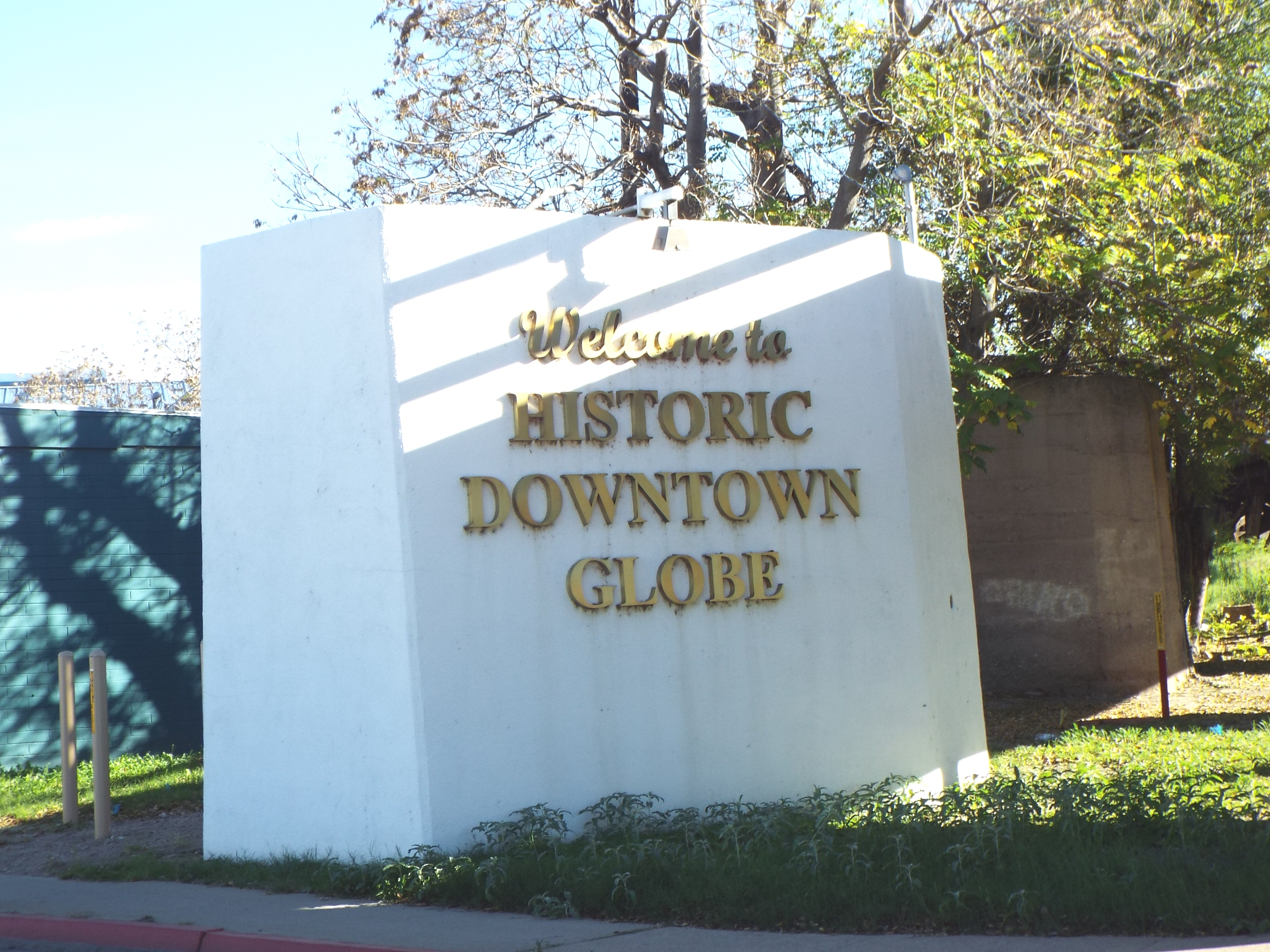 Globe-Welcome to Globe’s Historic District.